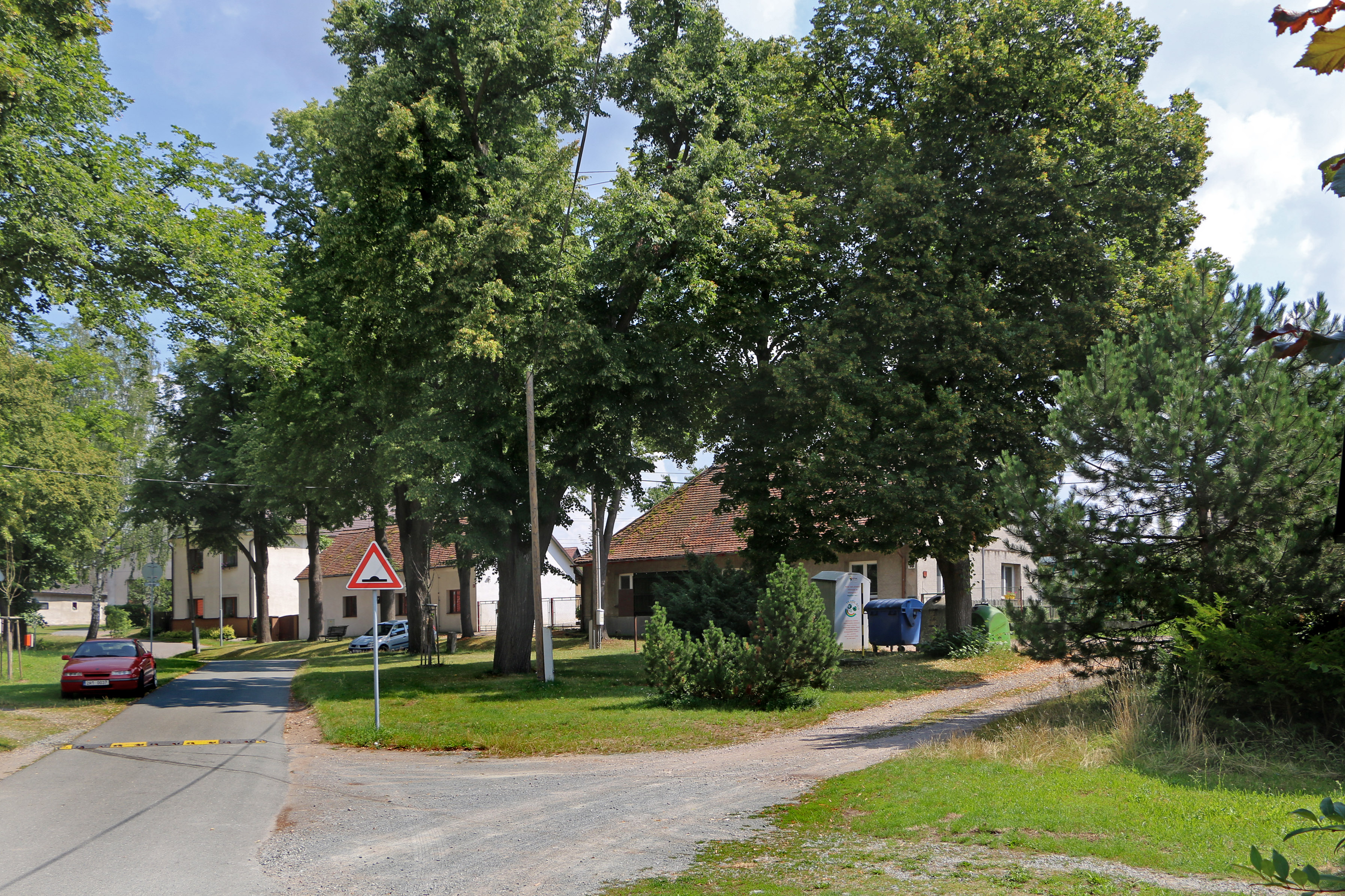 Bridge over Orlice river in Štěnkov, part of Třebechovice pod Orebem, Czech Republic.